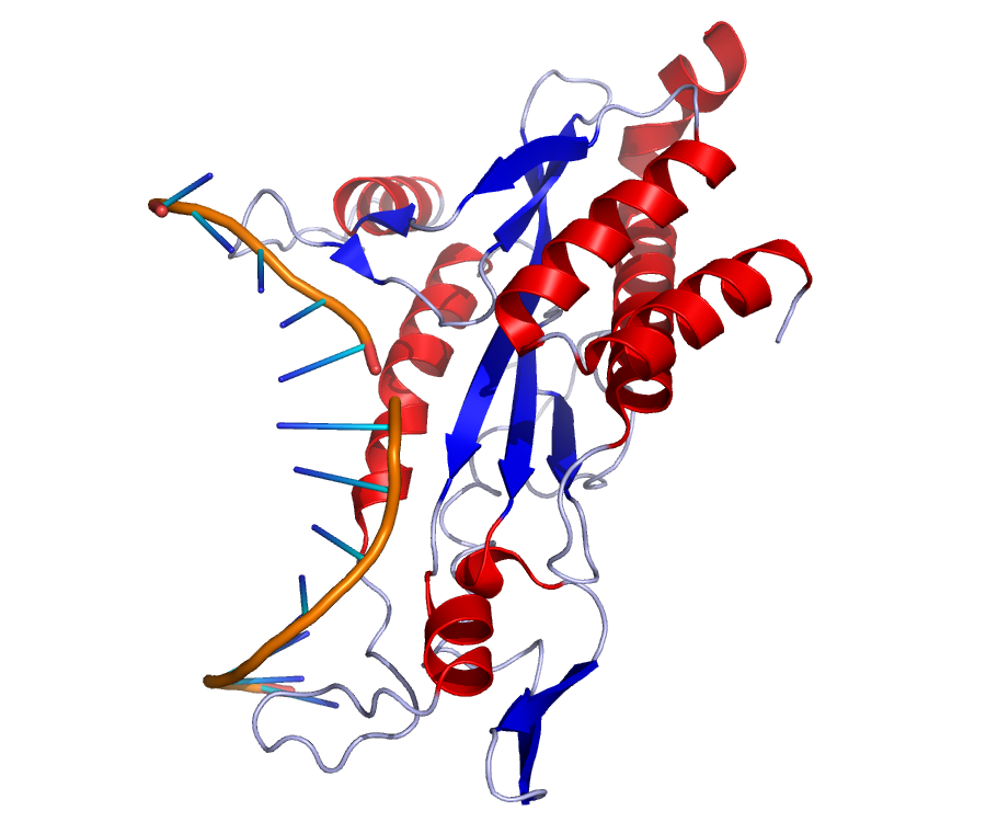 Solution structure of EcoRI as published in the Protein Data Bank (PDB: 1QPS)